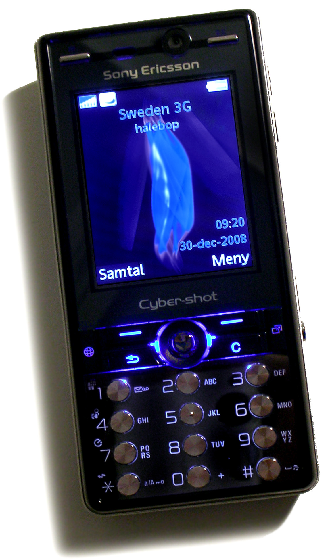 Front side of a Sony Ericsson K810i.